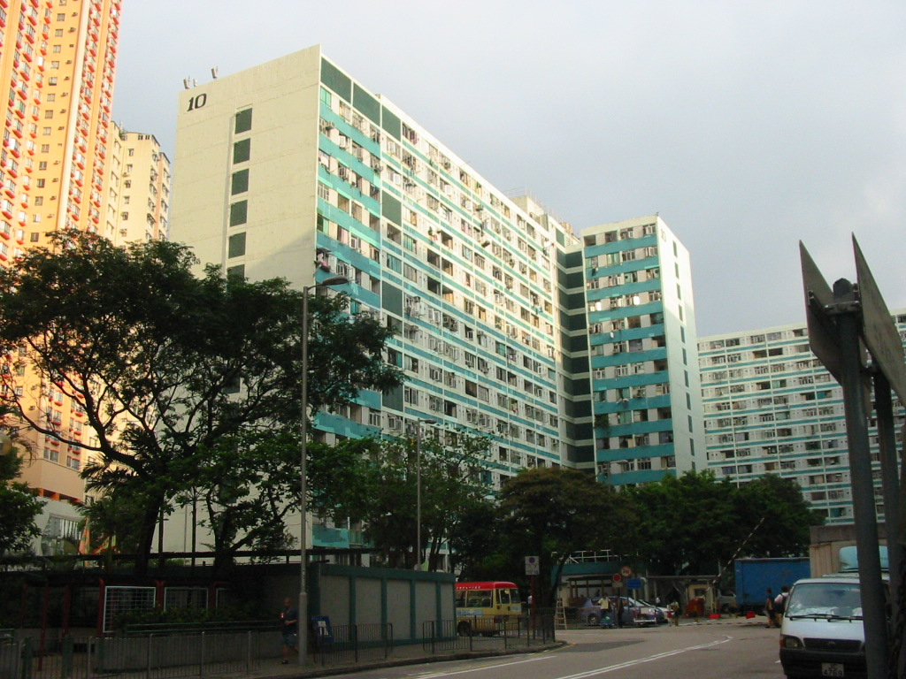 Block 10, Lower Ngau Tau Kok Estate.